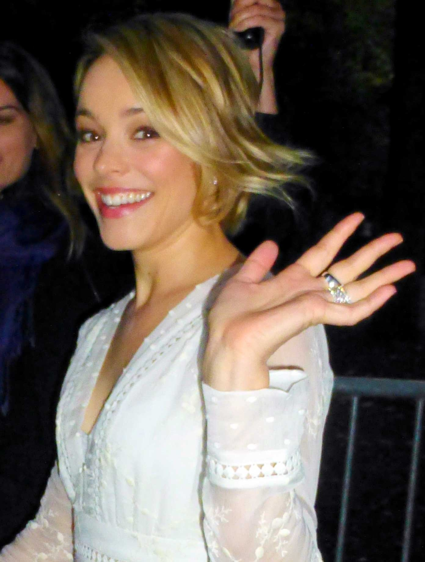 Rachel McAdams at Jason Reitman's live table read of The Princess Bride, 2015 Toronto Film Festival